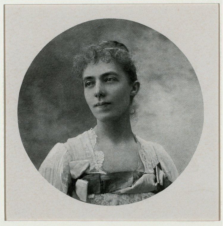 Lithograph of Adele Aus der Ohe (9.5 cm. circle on sheet 24 x 31 cm) from the Muller Collection in The New York Public Library for the Performing Arts.